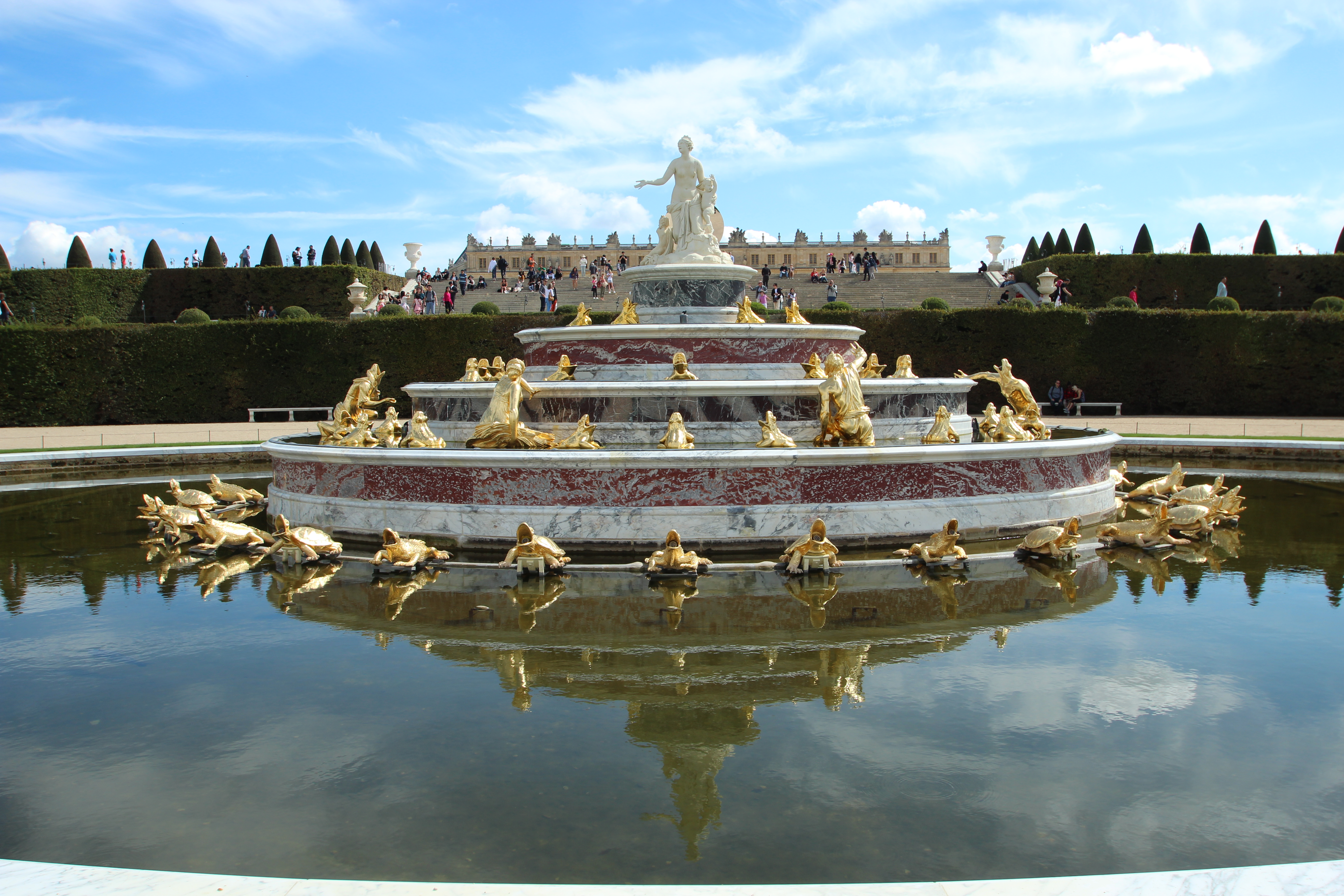 Bassin de Latone (Latona Fountain) restored in the Palace of Versailles, France. Object location48° 48′ 19.76″ N, 2° 07′ 03.83″ E .